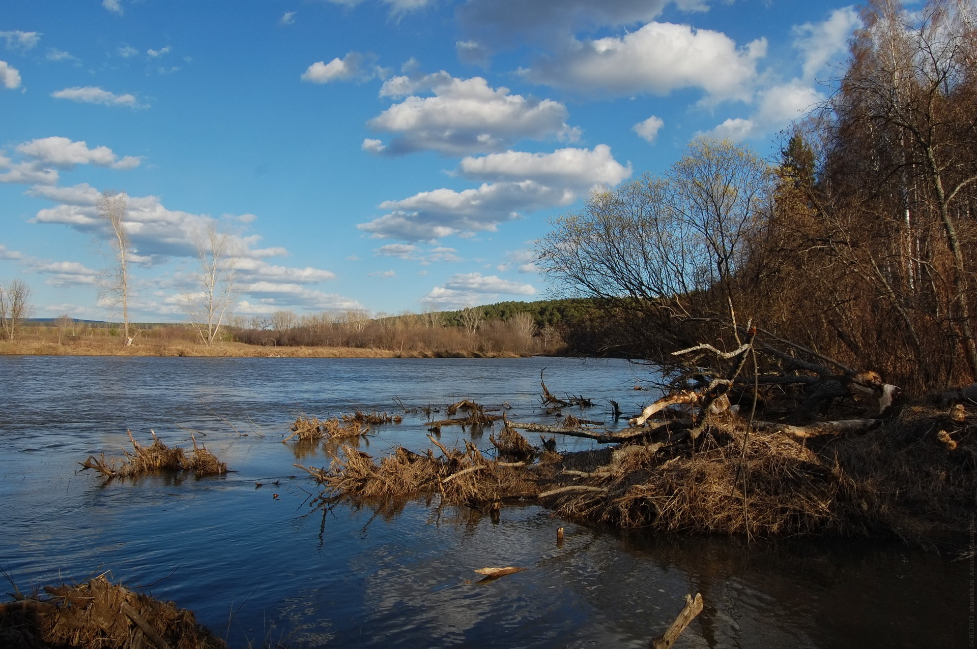 Mouth of the Dubovka river (triburary of Ufa). Near Shemakha village, Nyazepetrovsky district, Chelyabinskaya oblast, Russia.